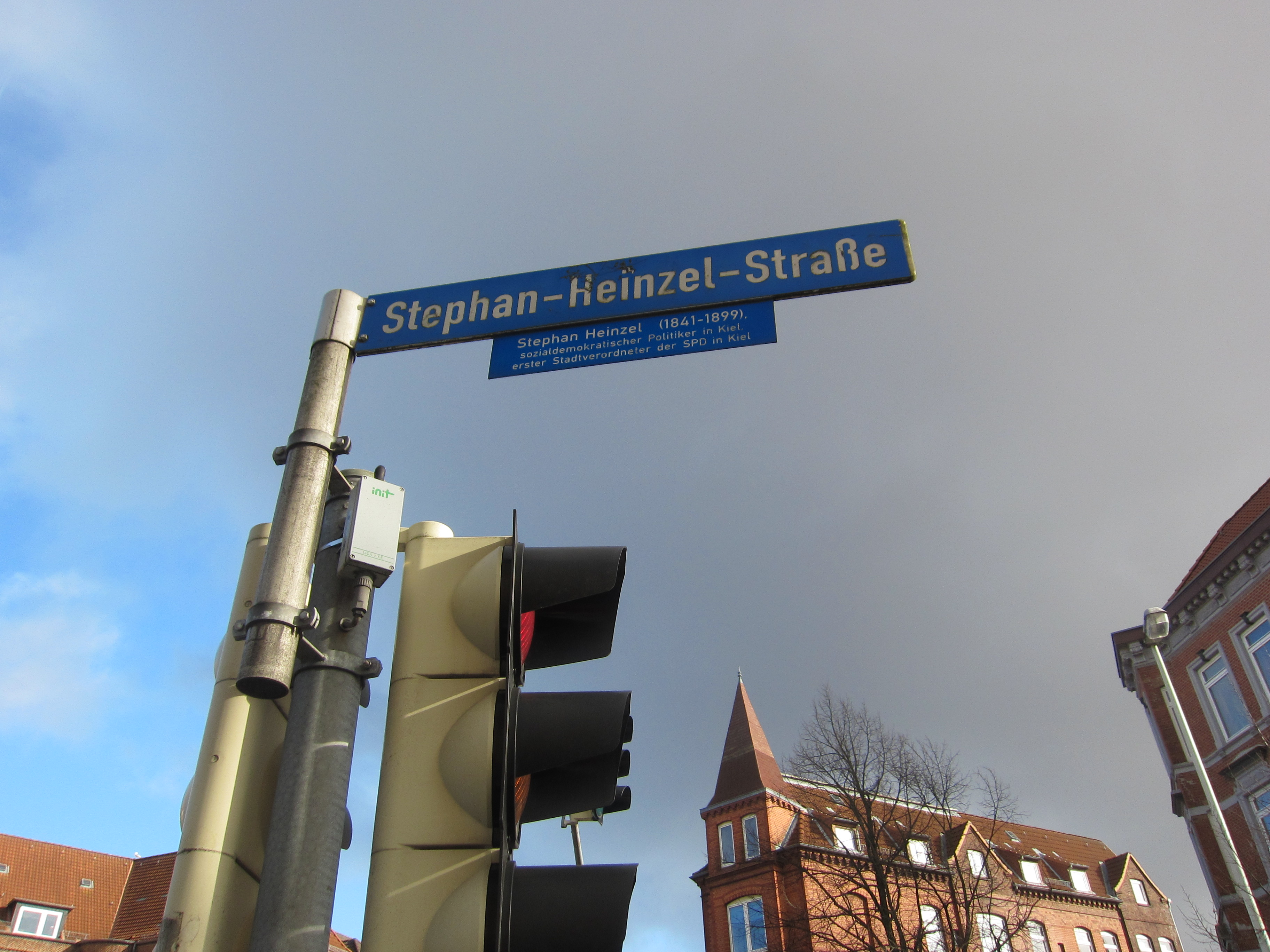 Street sign "Stephan-Heinzel-Straße" in Kiel-Schreventeich